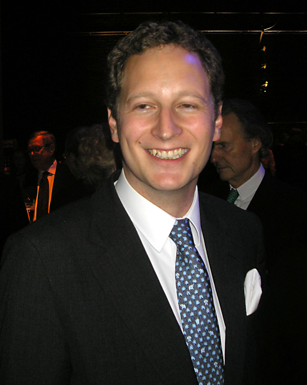 Georg Friedrich, Prince of Prussia. Photo taken at the Komische Oper Berlin during the Quadriga award ceremony in 2007.